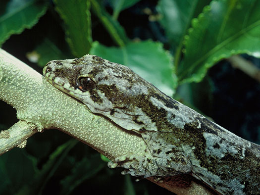 Close up of head and upper body of a Pacific gecko Hoplodactylus pacificus.